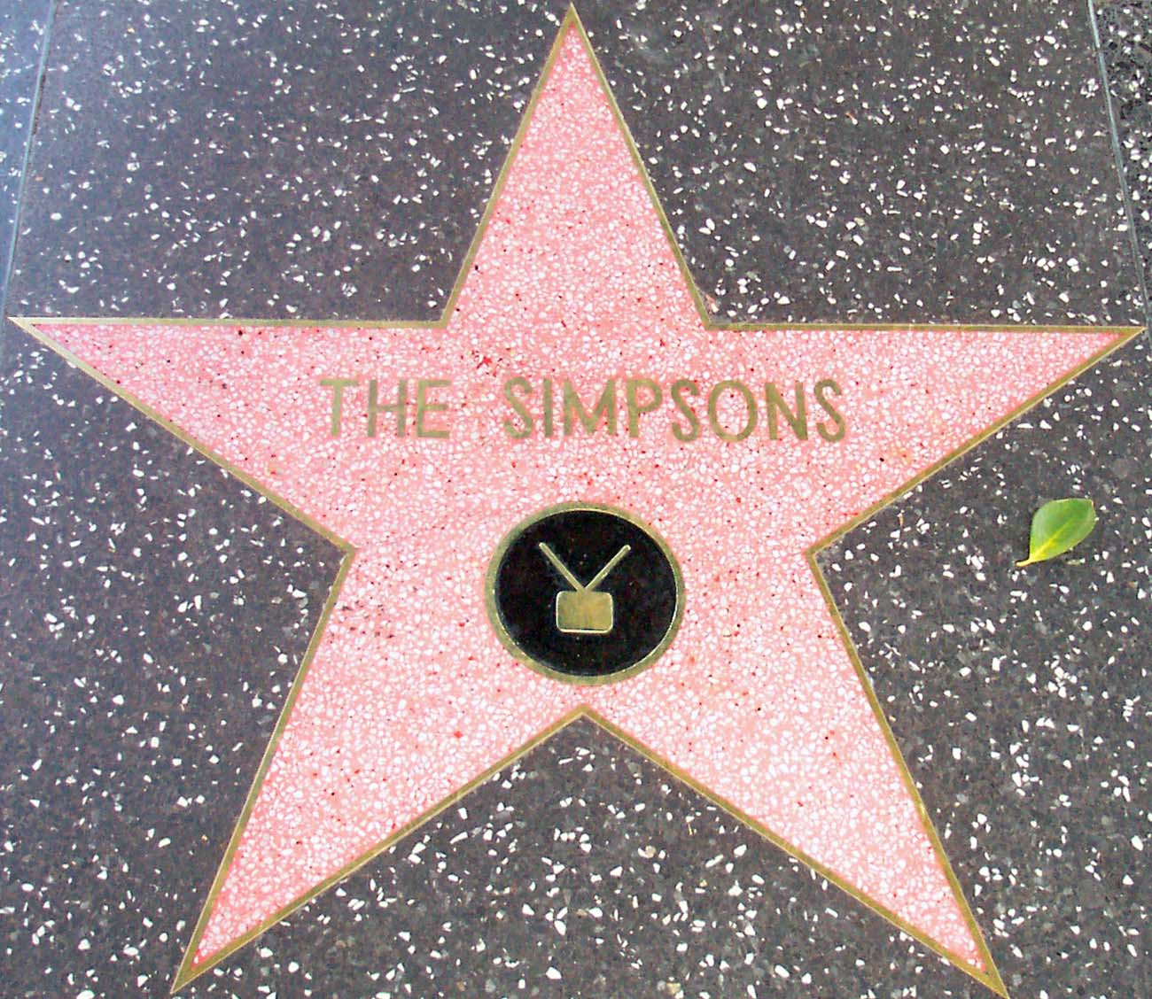 The Simpsons on the Hollywood Walk of Fame